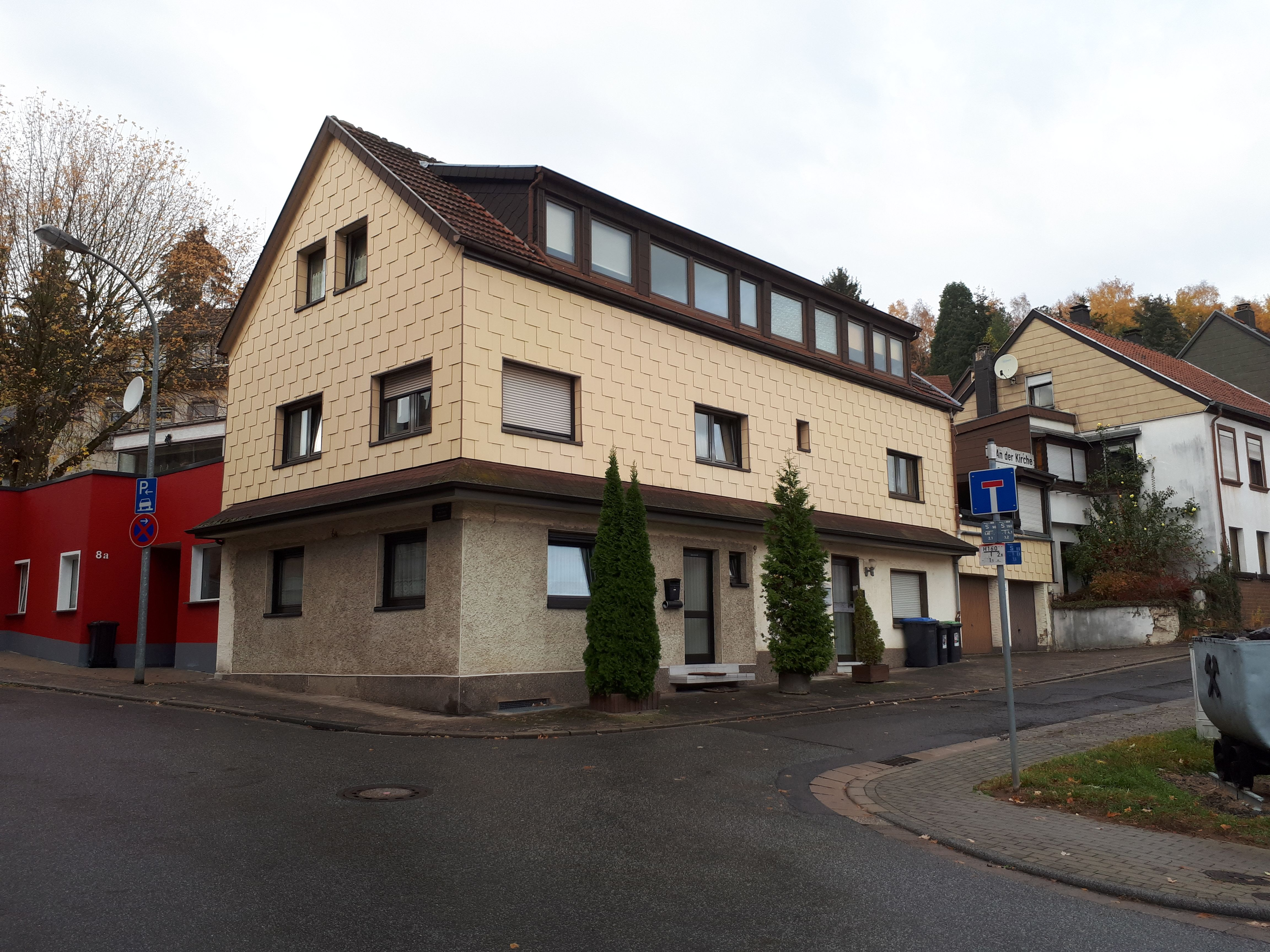 Residential building on the spot where the synagogue of Spiesen stood.